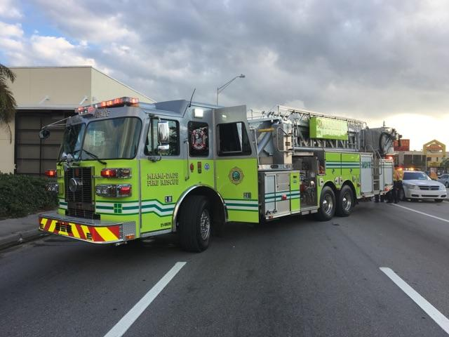 100 Foot Sutphen Platform